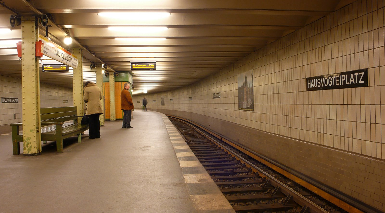 Subway Hausvogteiplatz Berlin